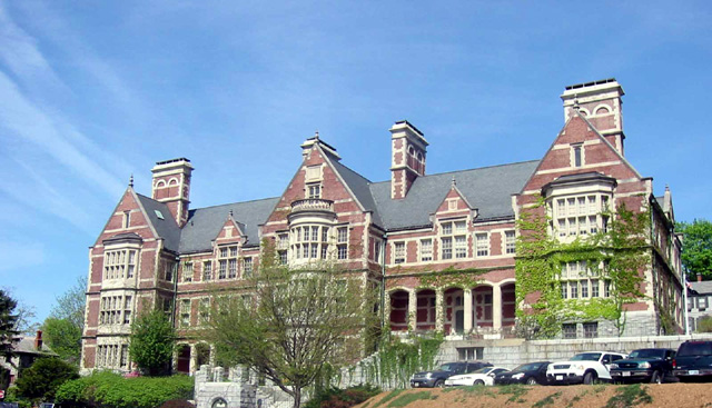 Methuen City Hall also known as